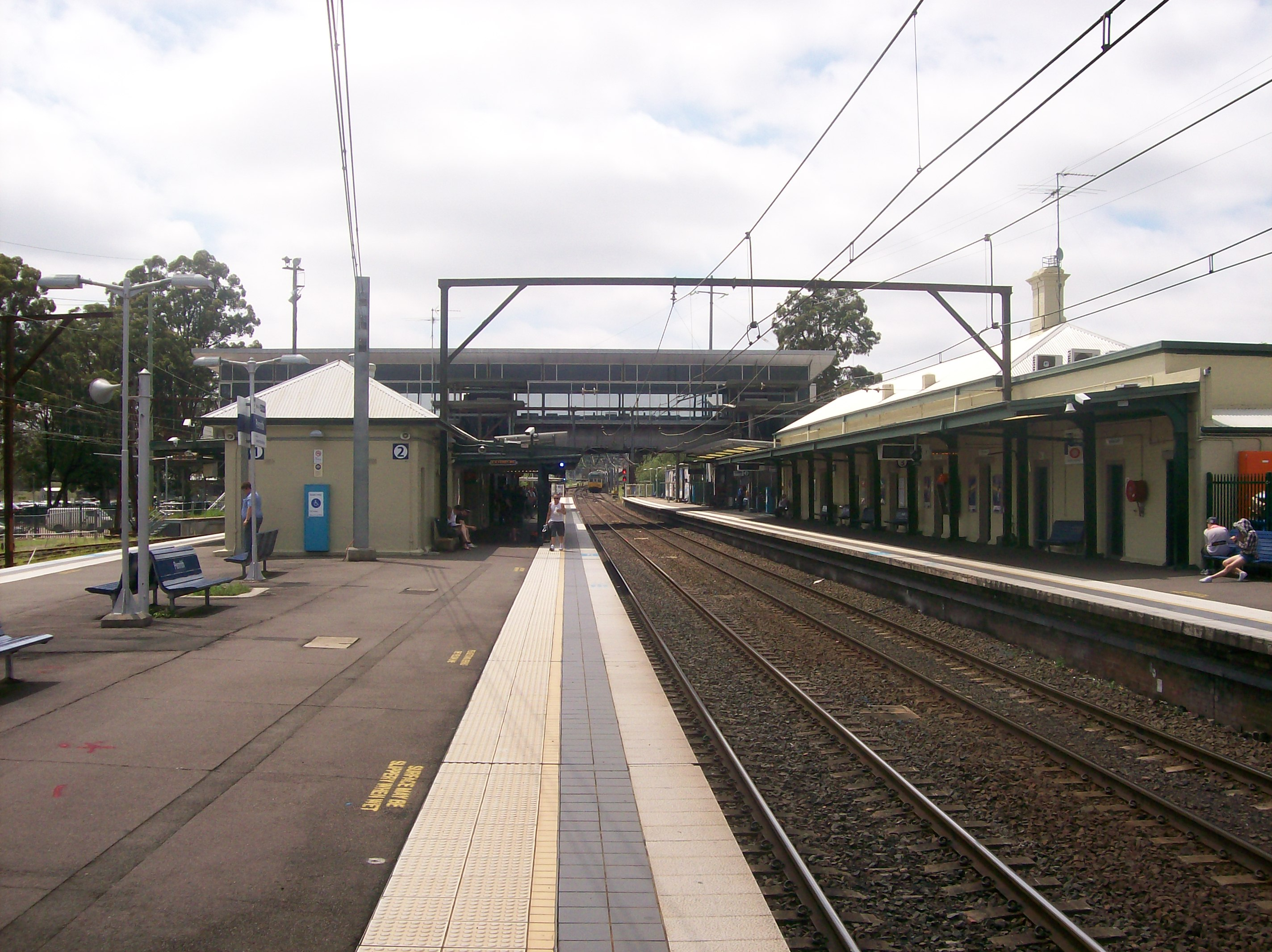 Penrith railway station